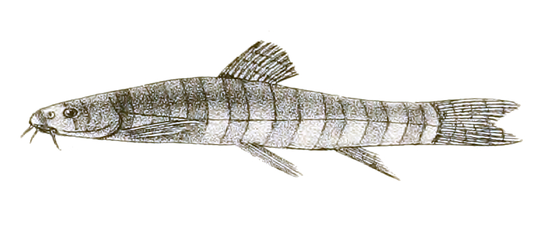 The species names / identity need verification - original names from plate are included here. The original plates showed the fishes facing right and have been flipped here. Nemacheilus triangulari